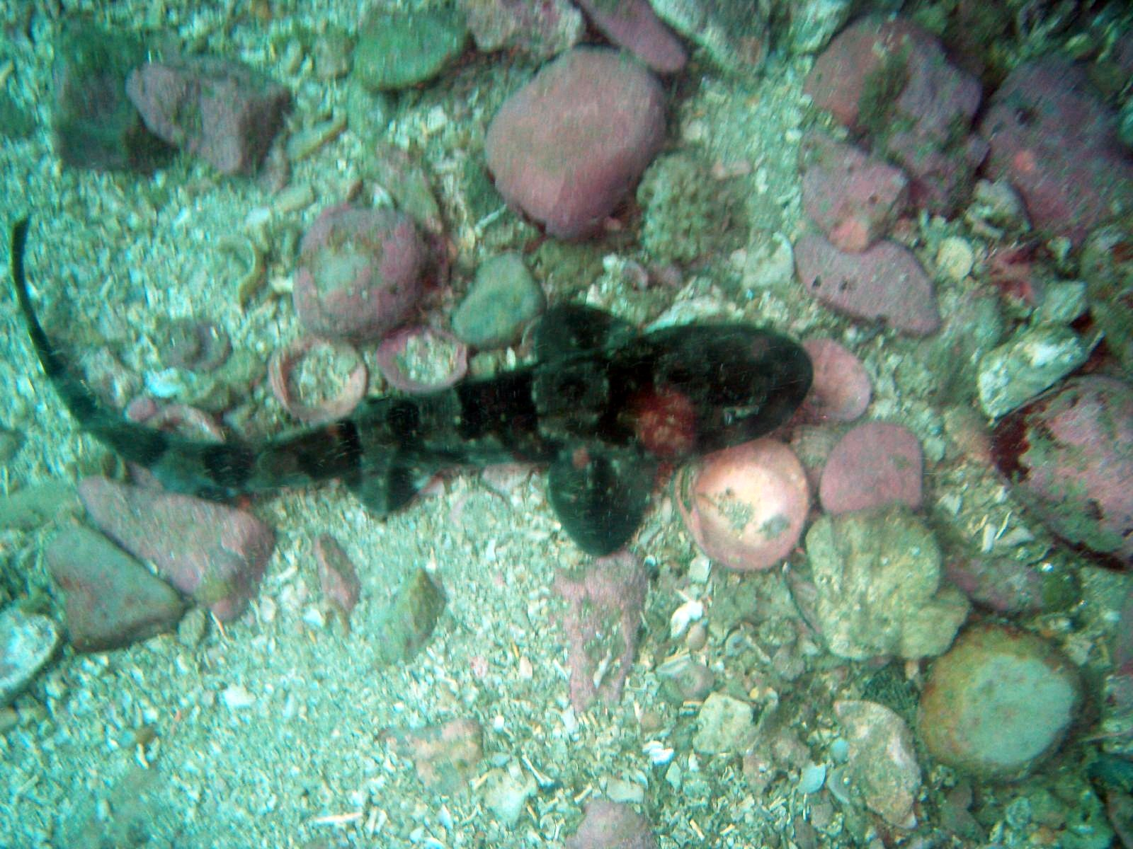 Dark shyshark (Haploblepharus pictus) off the Cape of South Africa.